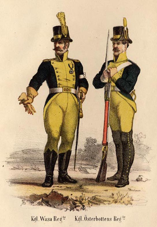 Swedish uniform modell 1808. Royal Regiment of Ostrobothnia